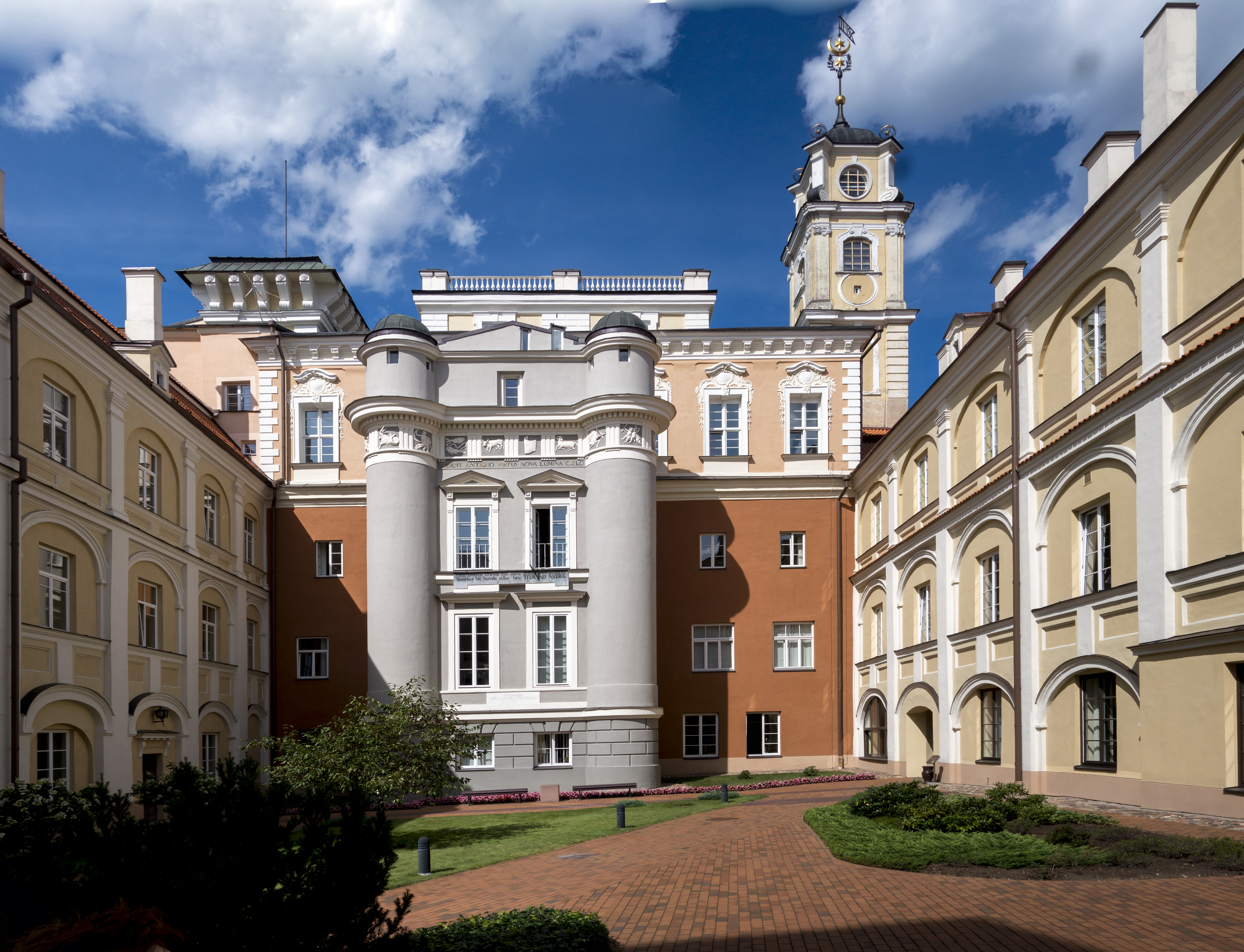 Vilnius University - Observatory Courtyard